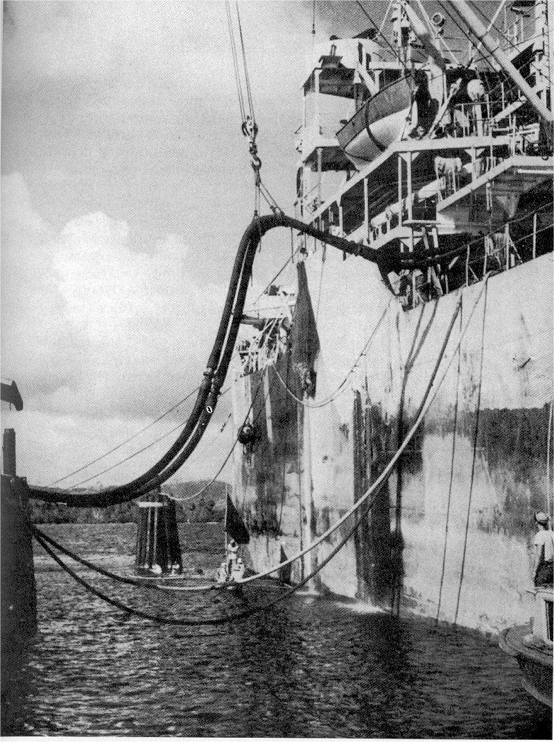 Picture of the fleet oiler USS Ponaganset (AO-86) taking on water at Balusoa Water Point, Samar, Philippines, date unknown (taken in 1944 or 1945).